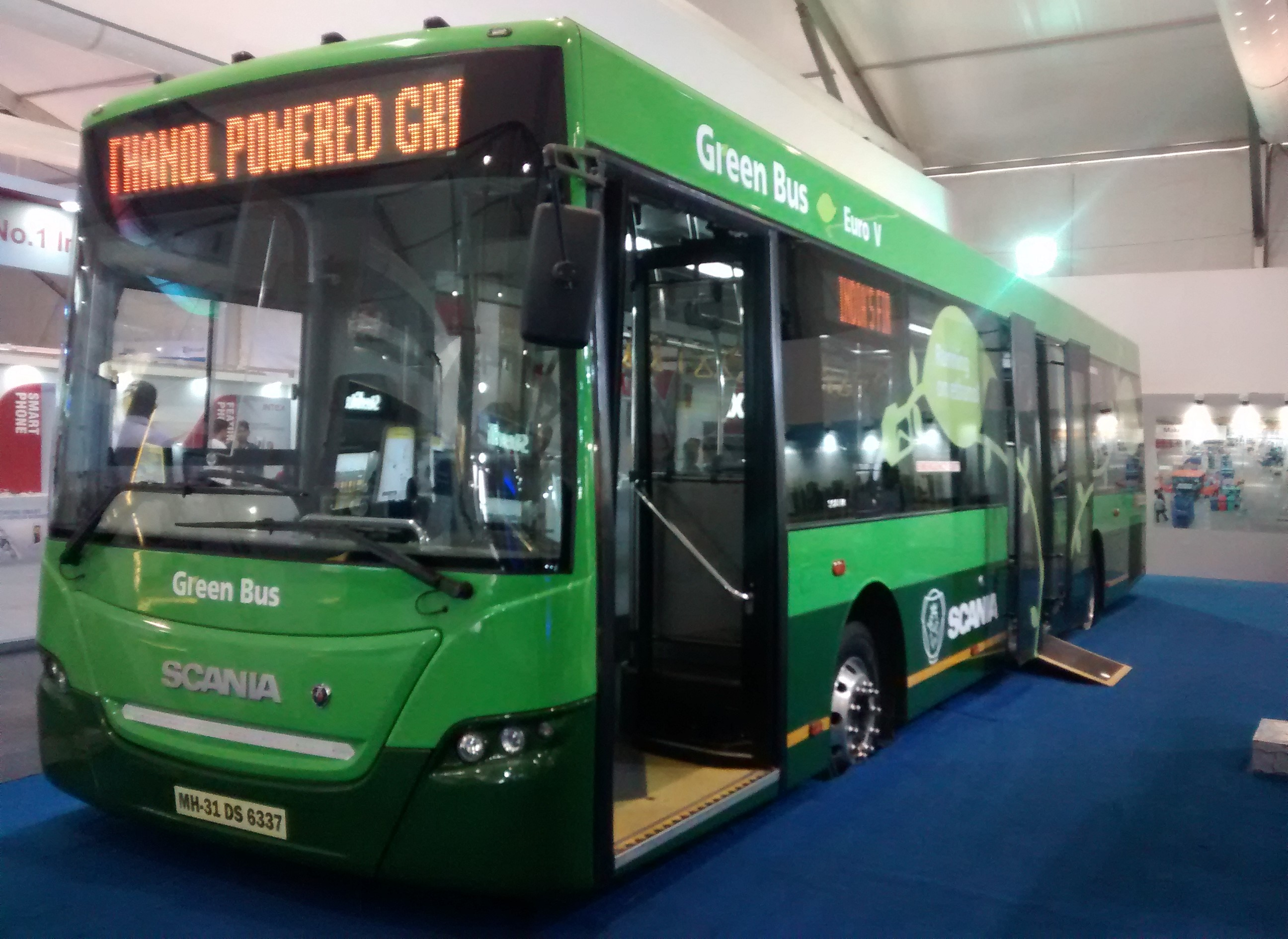 NMPL Scania Biofuel bus